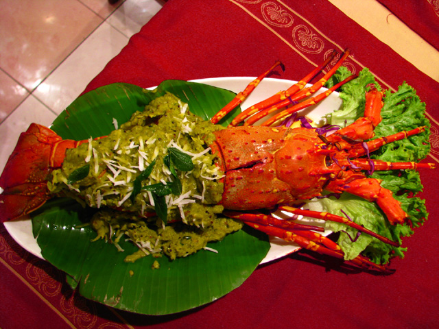 Lobster from Mangalore, India